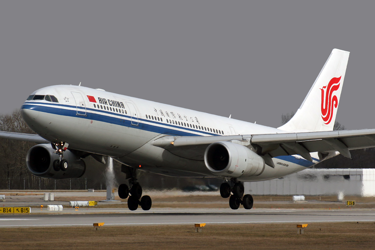 Munich (EDDM/MUC) Airport